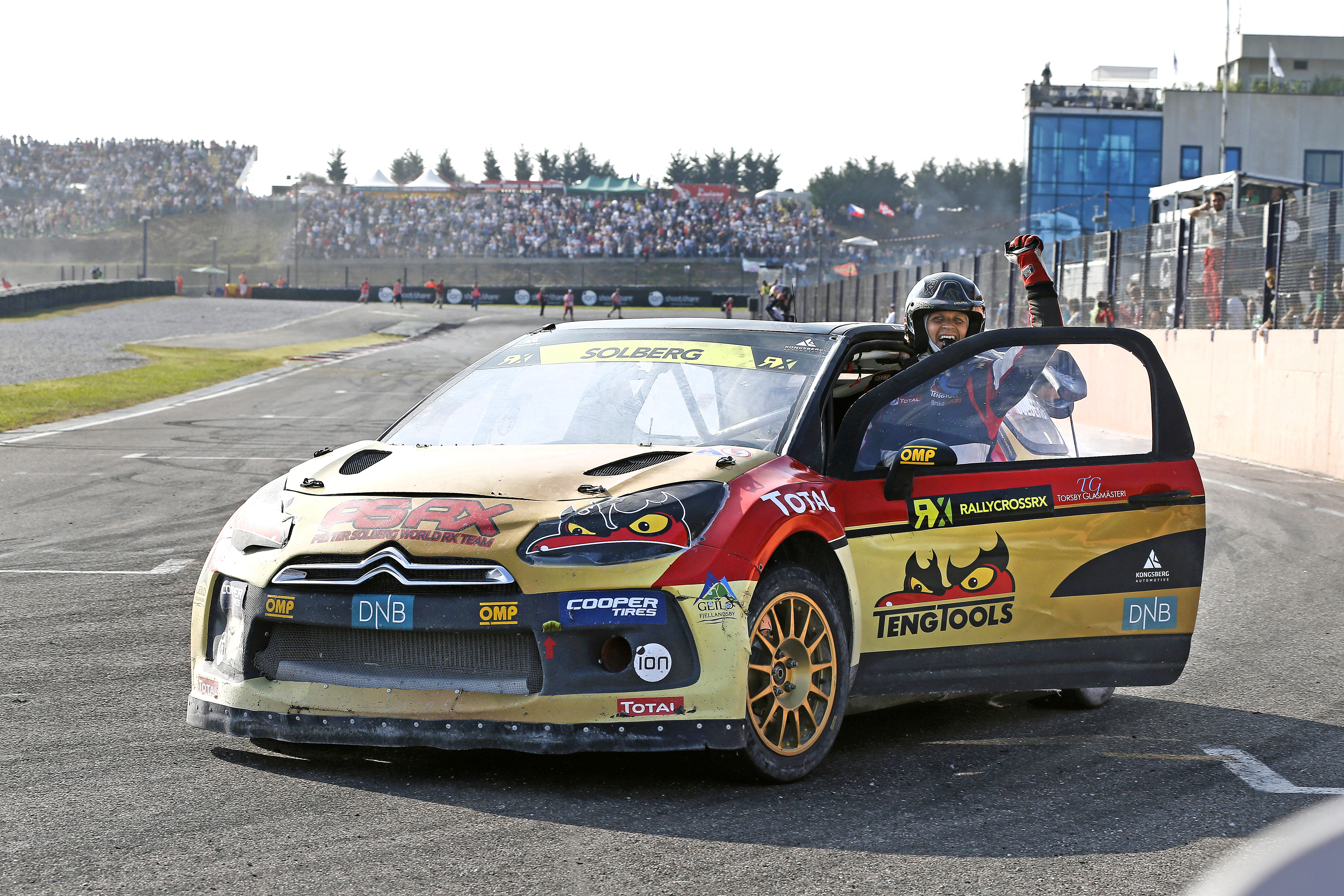 Petter Solberg at Round 10 of the 2014 FIA World Rallycross Championship at Franciacorta International Circuit, Italy.